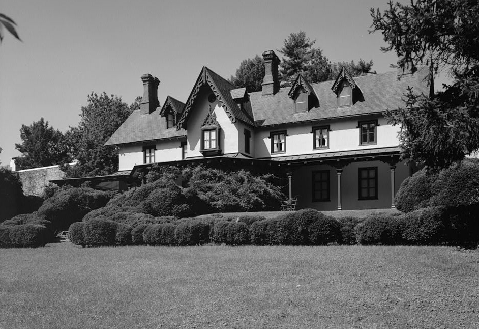 The Grange Estate, Havertown, PA, a historic house museum.